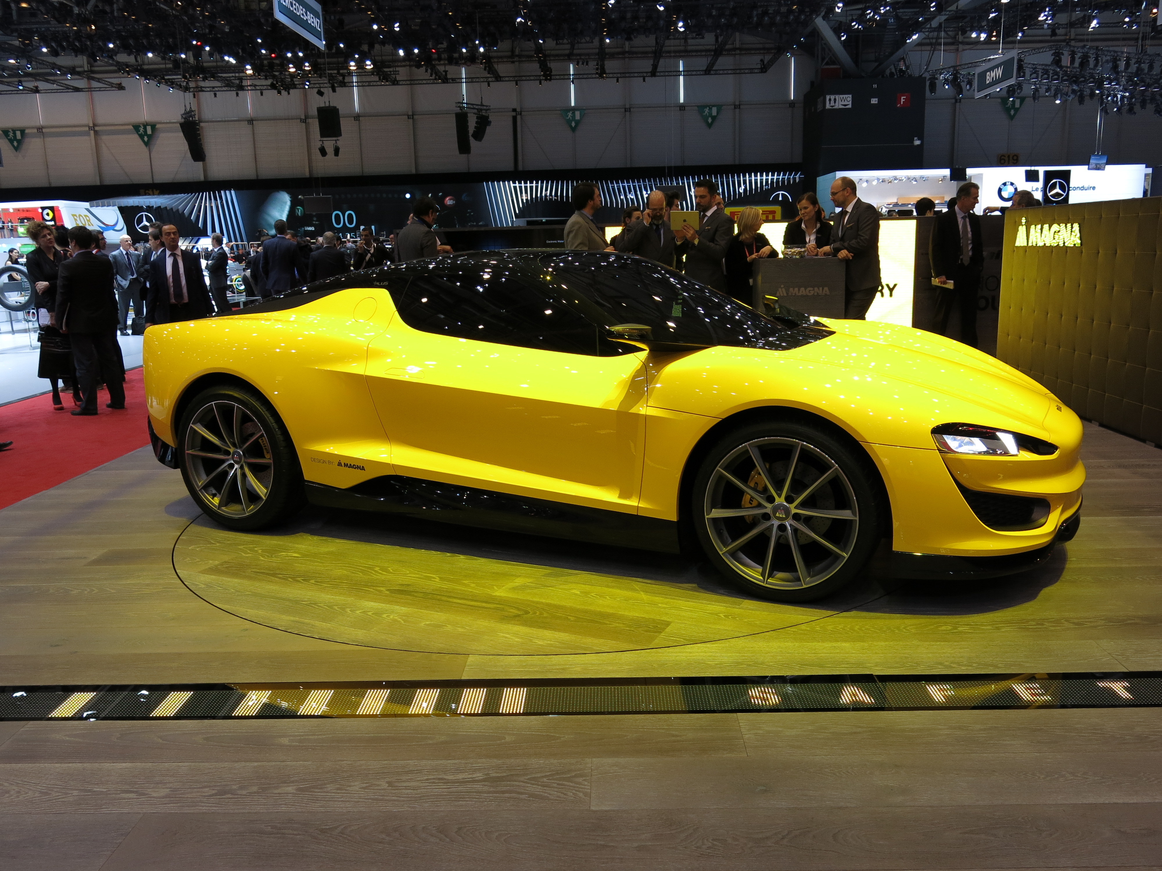 Geneva Motor Show 2015 (photo taken on the first press day)